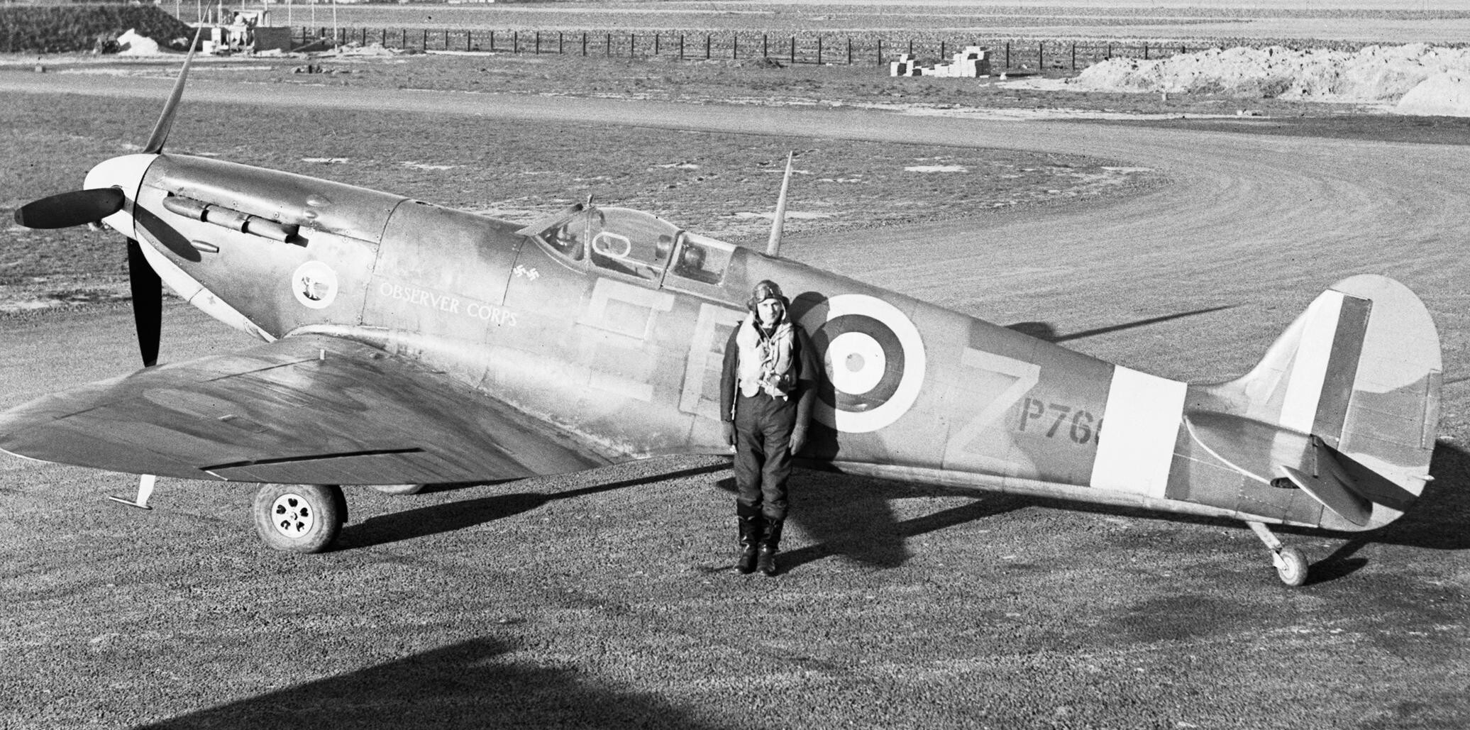 Squadron Leader D.O. Finlay, the Commanding Officer of No. 41 Squadron RAF and former British Olympic hurdler, standing by his Supermarine Spitfire Mark IIA (P7666, ‘EB-Z)’ “Observer Corps”, at Hornchurch, Essex (UK).